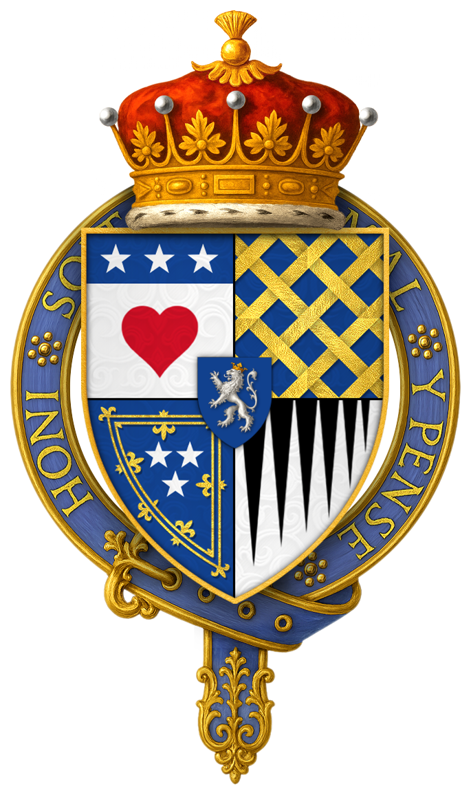 Sir James Douglas, 9th Earl of Douglas, KG HOPE, W. H. St. John, The Stall Plates of the Knights of the Order of the Garter 1348 – 1485: A Series of Ninety Full-Sized Coloured Facsimiles with Descriptive Notes and Historical Introductions, Westminster: Archibald Constable and Company LTD, 1901. “ Plate LXXII - Sir James Douglas, Earl of Douglas and Avondale, K.G. 1461-1488… The shield bears these arms, quarterly: 1, silver a heart gules and a chief azure with three mullets silver on the chief (for Douglas); 2, azure fretty gold (for the Lordship of Lauderdale); 3, azure three mullets silver within a double treasure gold (for Moray of Bothwell); 4, silver six piles sable (for Brechin); with an escutcheon of pretense azure a crowned lion silver (for Galloway). ” Douglas' stall plate remains intact within the eighteenth stall, on the north side of the chapel.